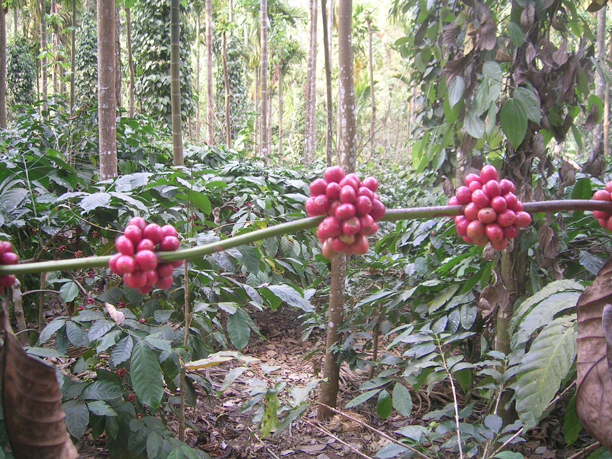 Coffee berries (Coffea robusta ?) from Chikmagalur, India